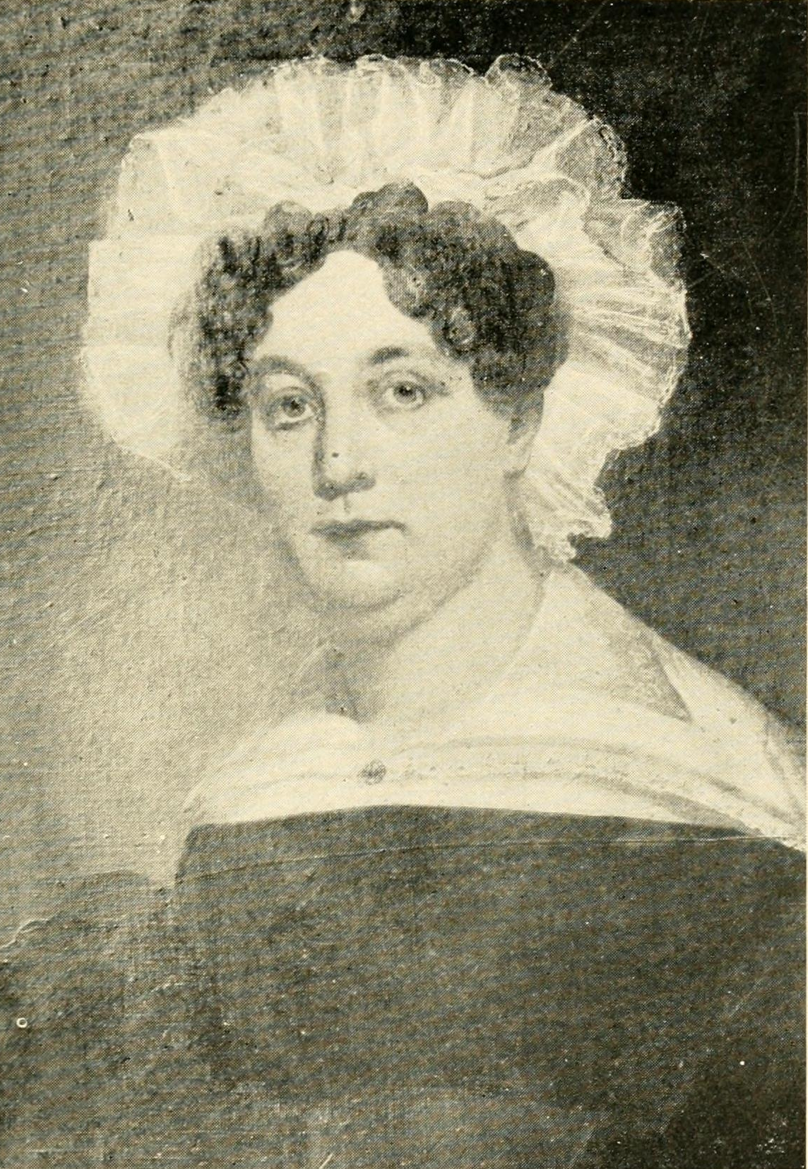 Susan Carpenter Frazer, wife of Judge William C. Frazer